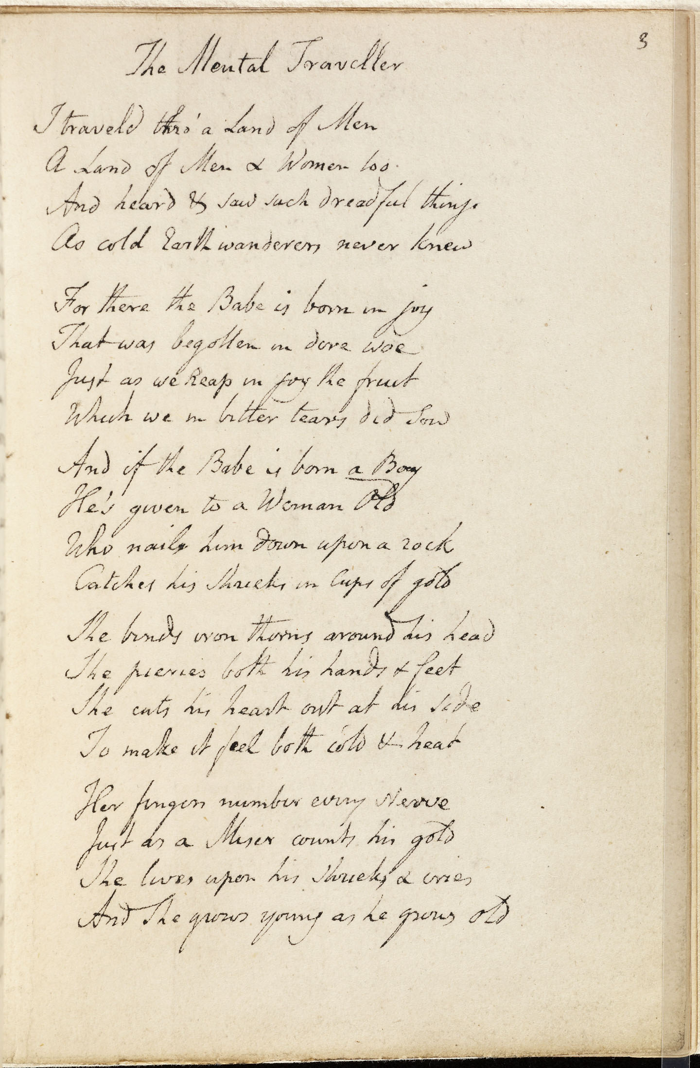 William Blake Mental Traveller bb126 1 3 ms 300